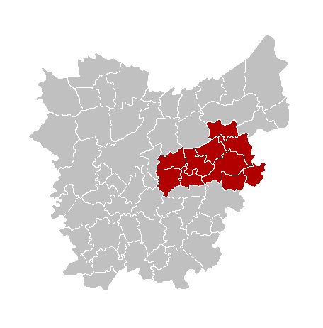 Map of the province East-Flanders, showing Dendermonde arrondissement in red.